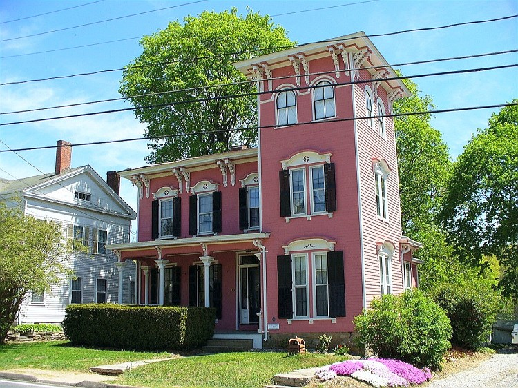 The Laura Huntington House in Windham Center, Windham, Connecticut. Part of the Windham Center Historic District.